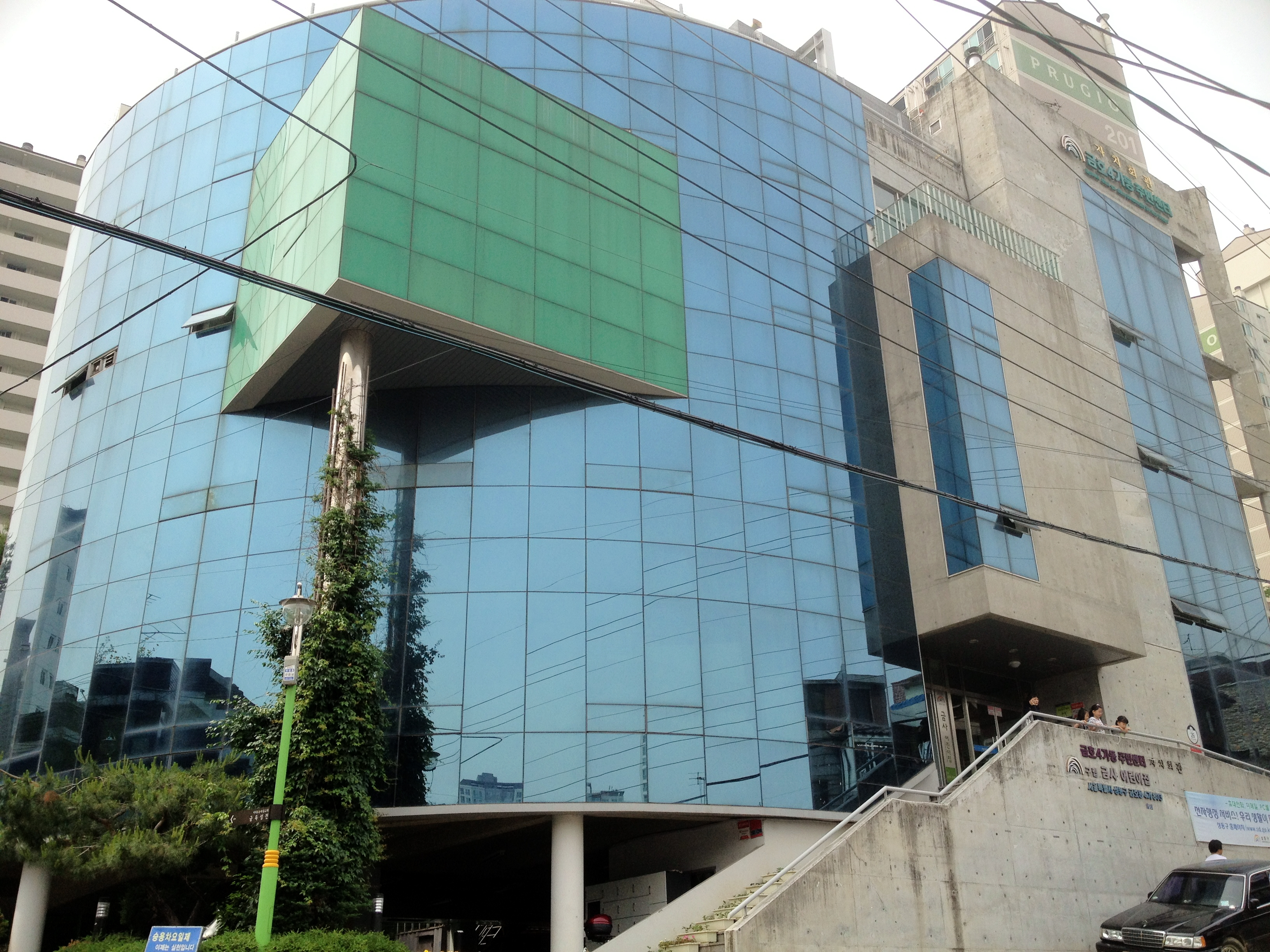 Geumho 4-ga-dong Comunity Service Center(Seongdong-gu)